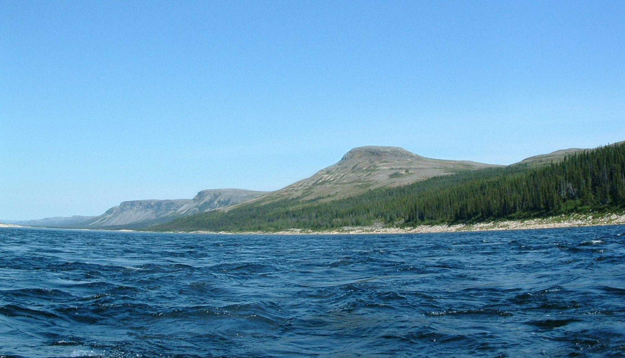 George River, Pyramid Peak on the right